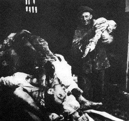 Member of the so-called Verbrennungskommando collecting bodies of Polish victims of the Wola massacre in Warsaw during World War II for their incineration on open-air street pyres.